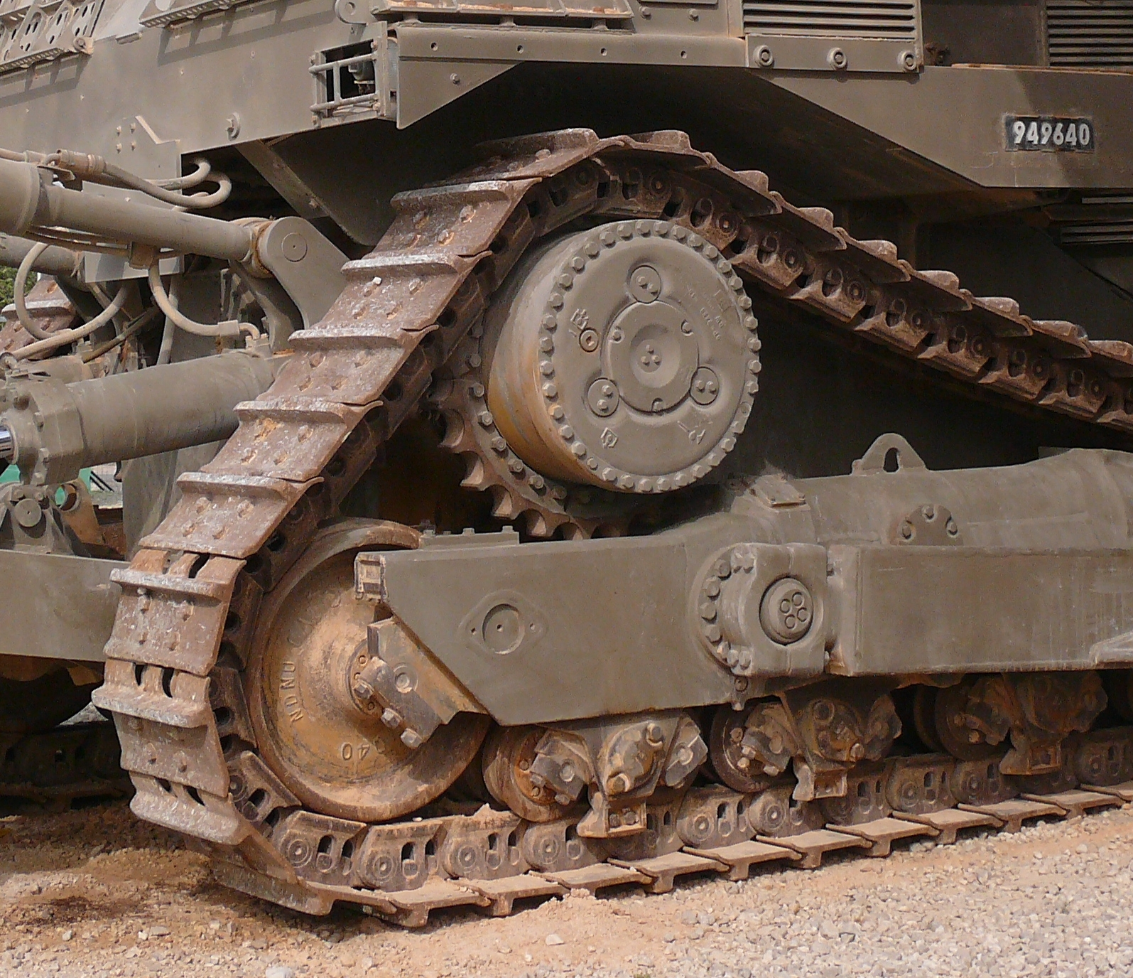 Tracks and elevated sprocket of an IDF Caterpillar D9R armored bulldozer